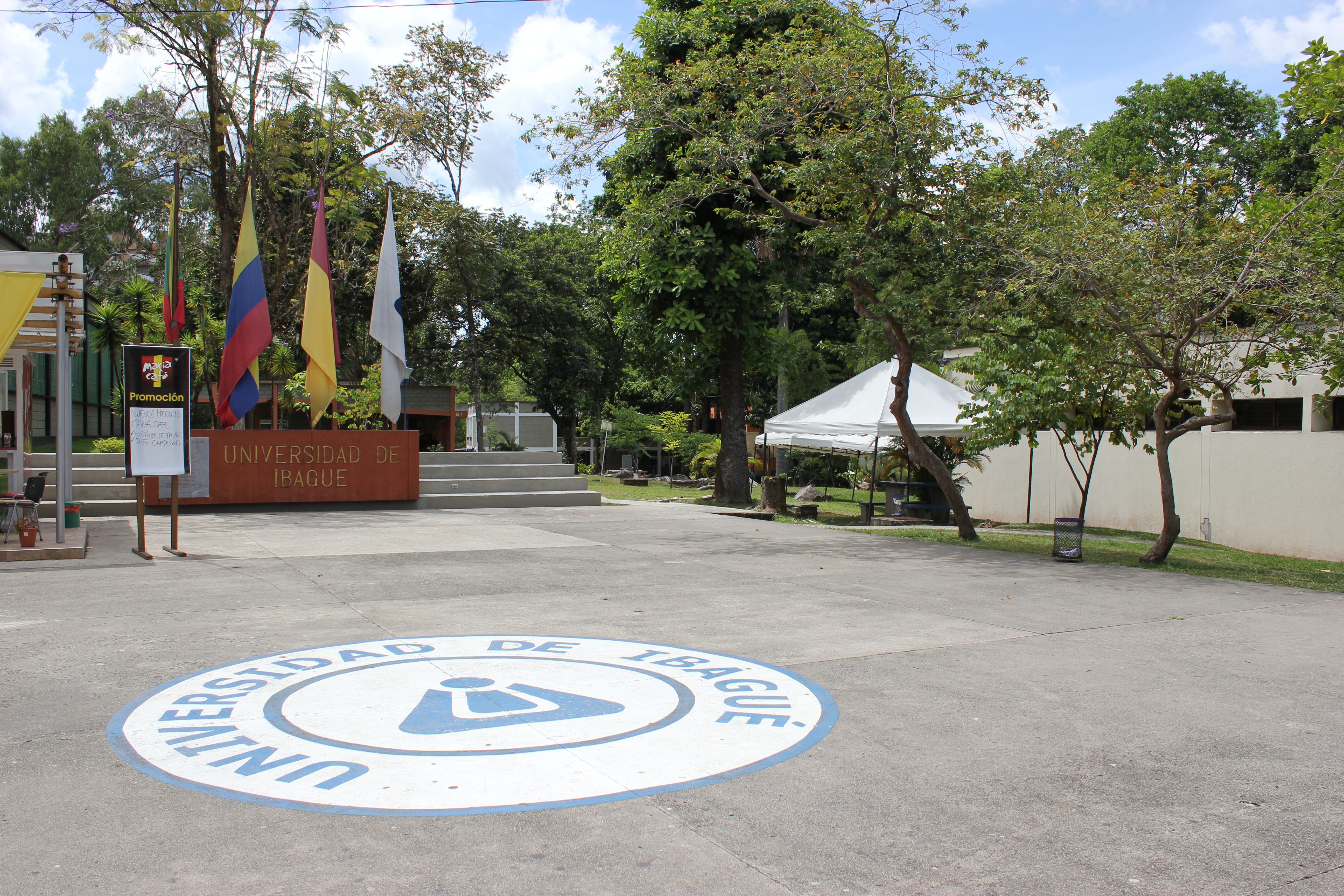 Patio de banderas Universidad de Ibagué